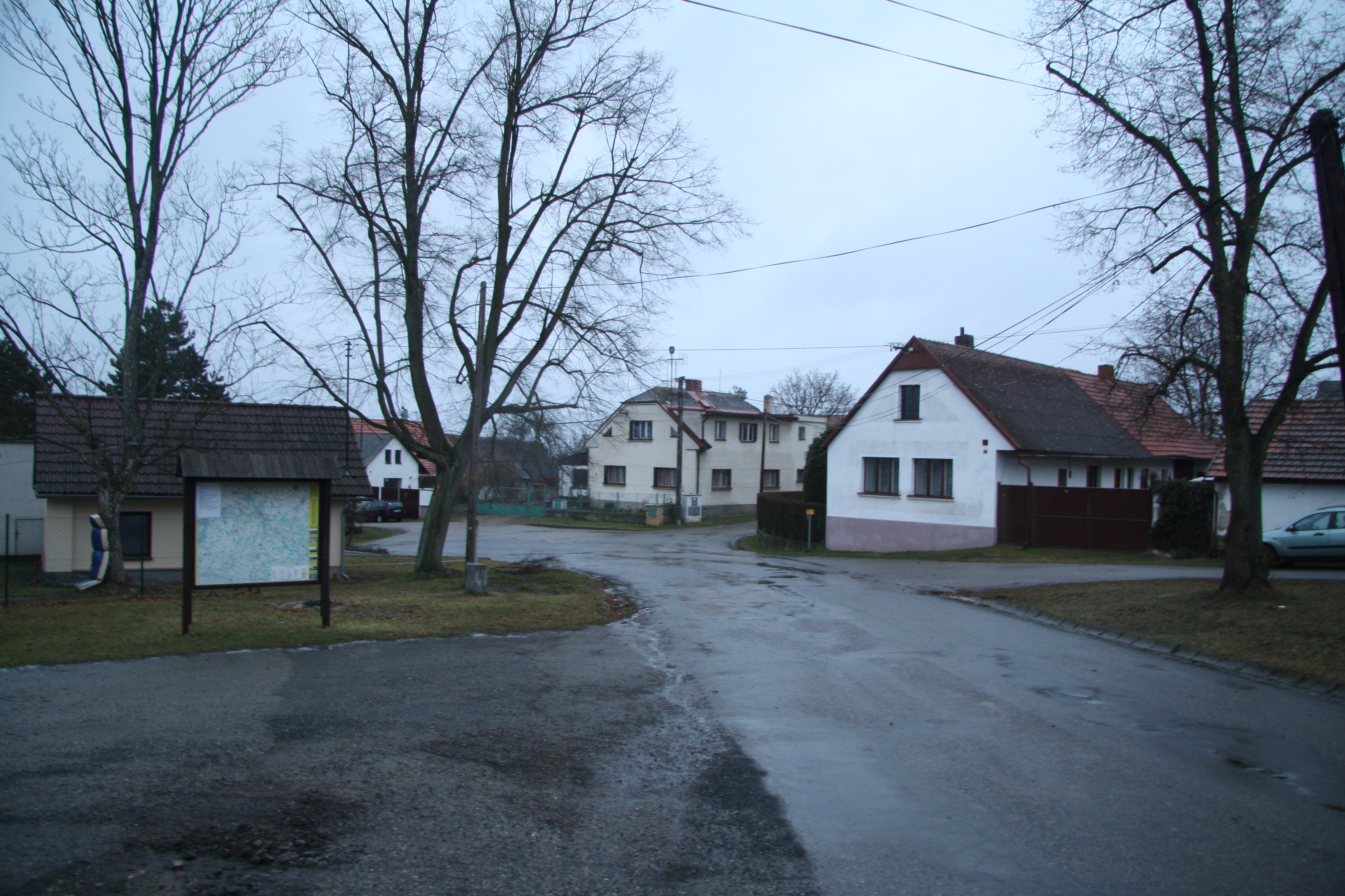 Center of Psáře, Benešov District.